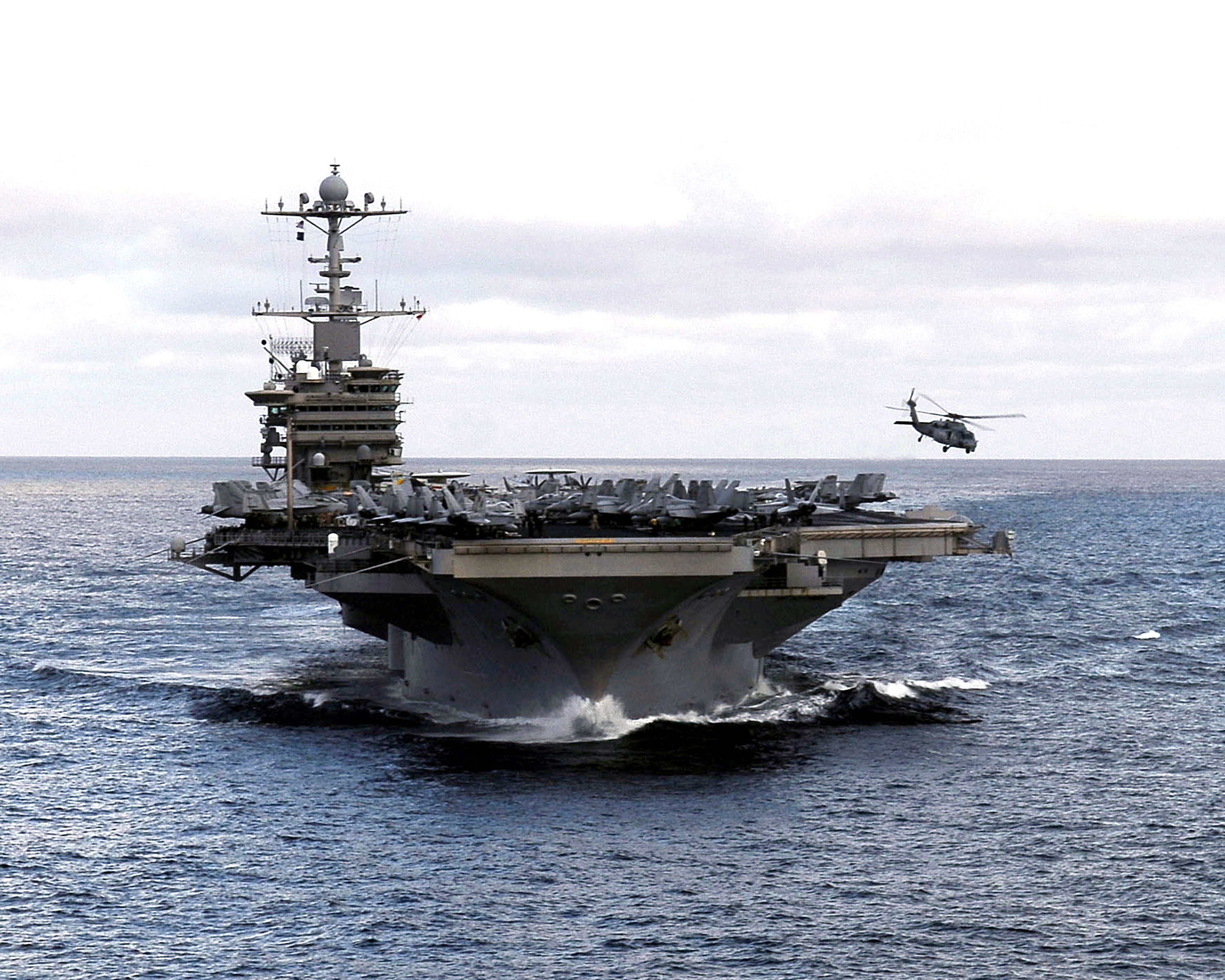 GULF OF ALASKA (June 19, 2009) An MH-60S Sea Hawk helicopter from the Eightballers of Helicopter Sea Combat Squadron (HSC) 8 takes off from the aircraft carrier USS John C. Stennis (CVN 74). John C. Stennis and Carrier Air Wing (CVW) 9 are participating in Northern Edge 2009, a joint exercise focusing on detecting and tracking units at sea, in the air and on land. (U.S. Navy photo by Mass Communication Specialist 3rd Class Josue L. Escobosa/Released)